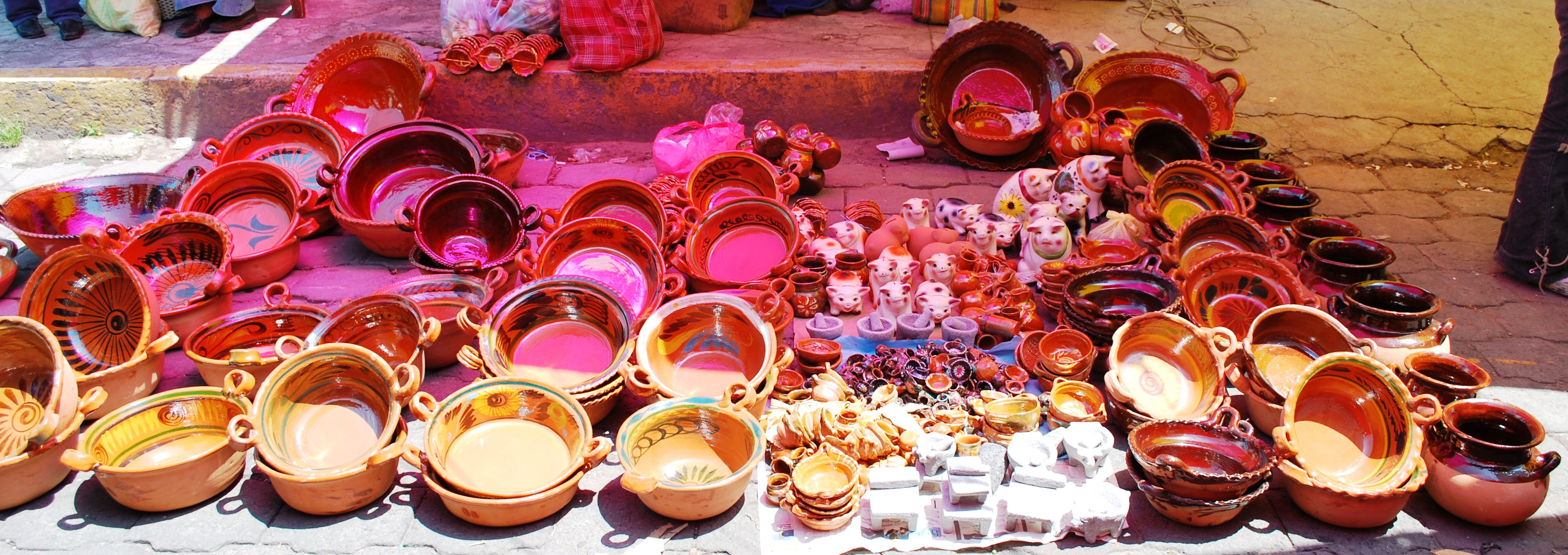 Traditional clay cookware for sale at a tianguis market in Metepec, Mexico State